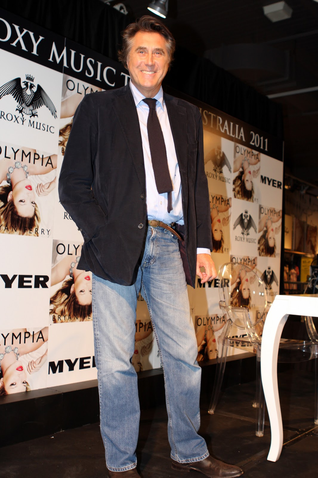 Bryan Ferry